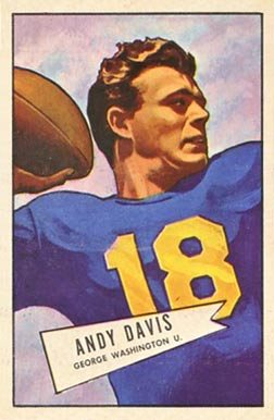 American football player Andy Davis (American football) on a 1952 Bowman Large card.